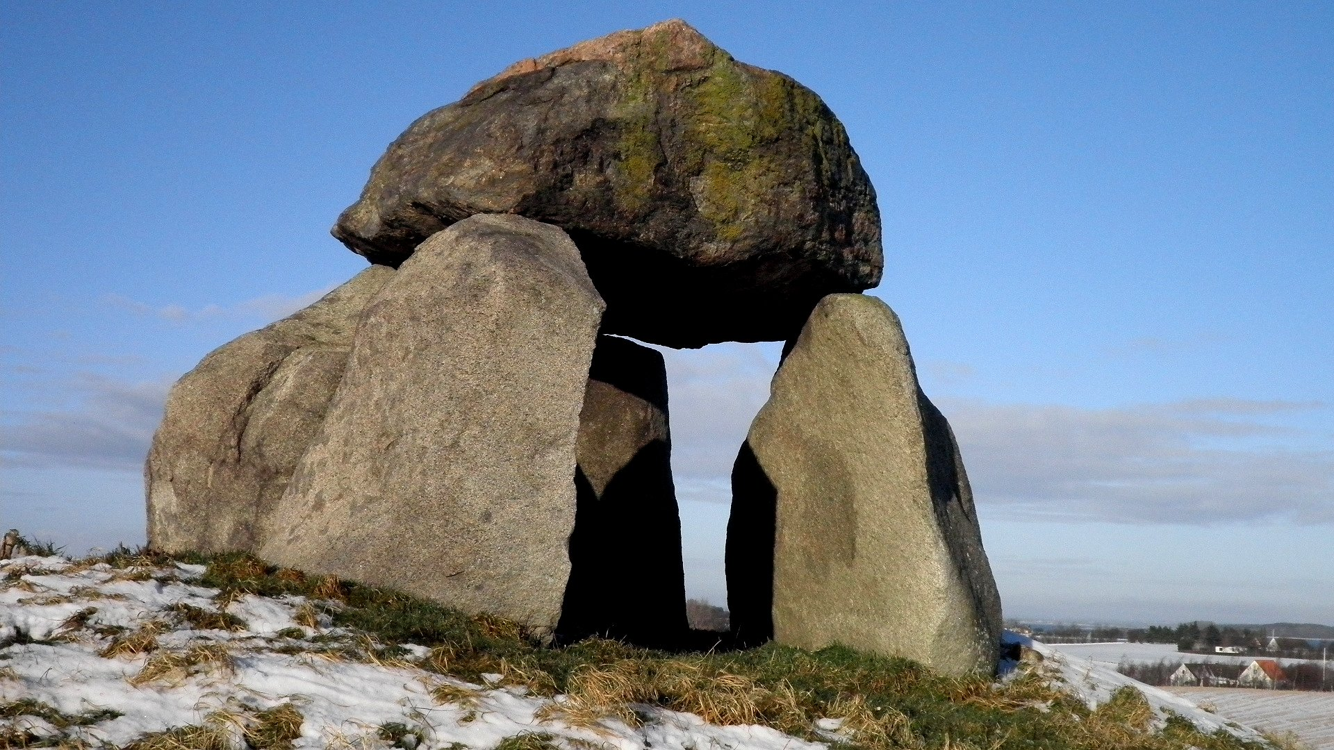 Hagbølle dolmen and tumulus from the Stone Age on Langeland in Denmark.